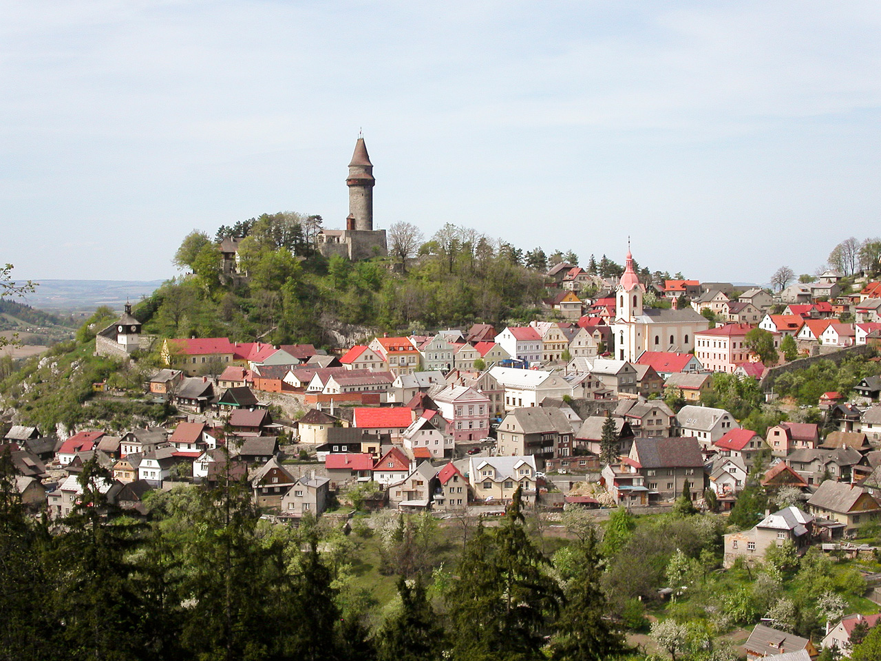 View at the Czech town of Štramberk with the Trúba castle tower from Šipka cave